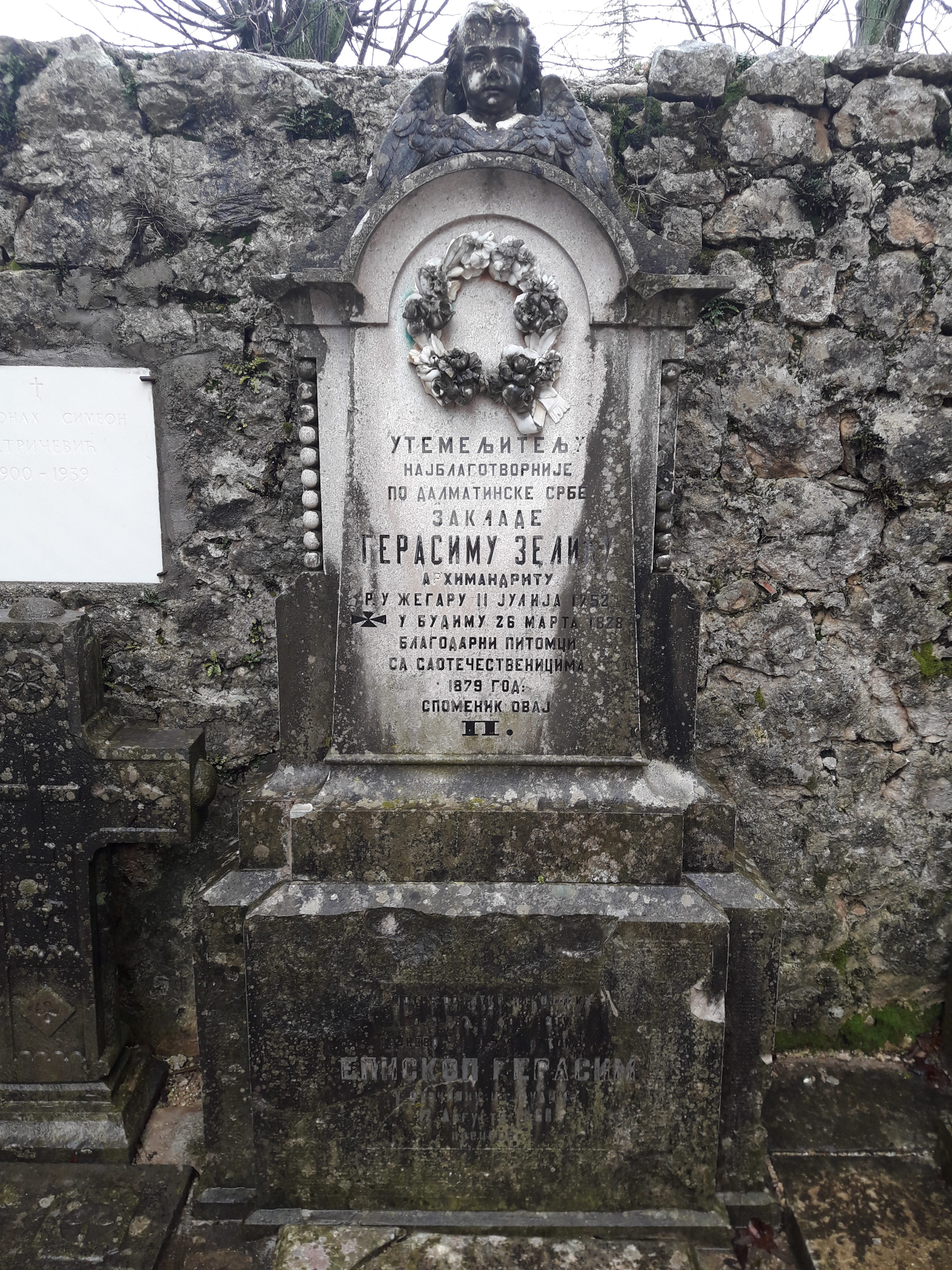 Tomb of Gerasim Zelić, renowned Serbian Orthodox Church archimandrite, traveller and writer.